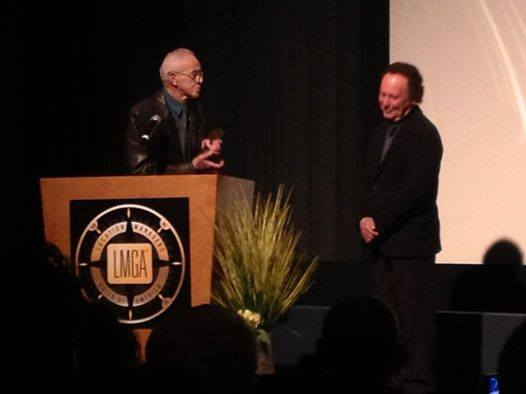 Billy Crystal presents Haskell Wexler the LMGA Humanitarian Award at their inaugural award show in 2014